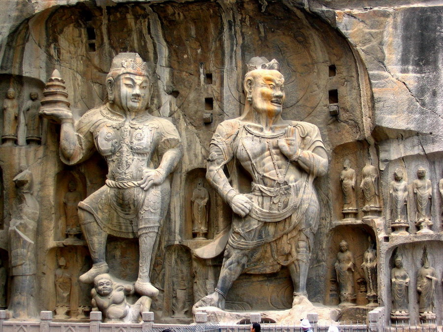 Massive lokapala in the Longmen Grottoes near Luoyang, China